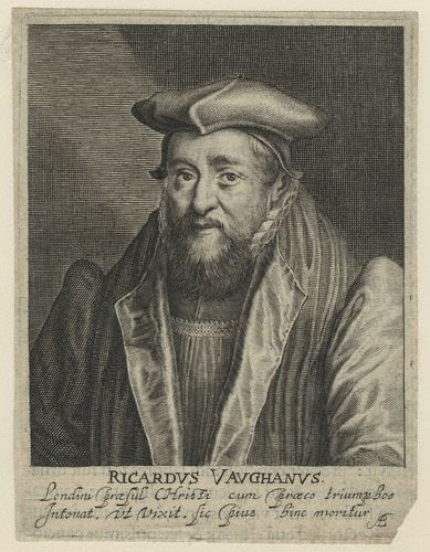 Richard Vaughan (c1553-1607)